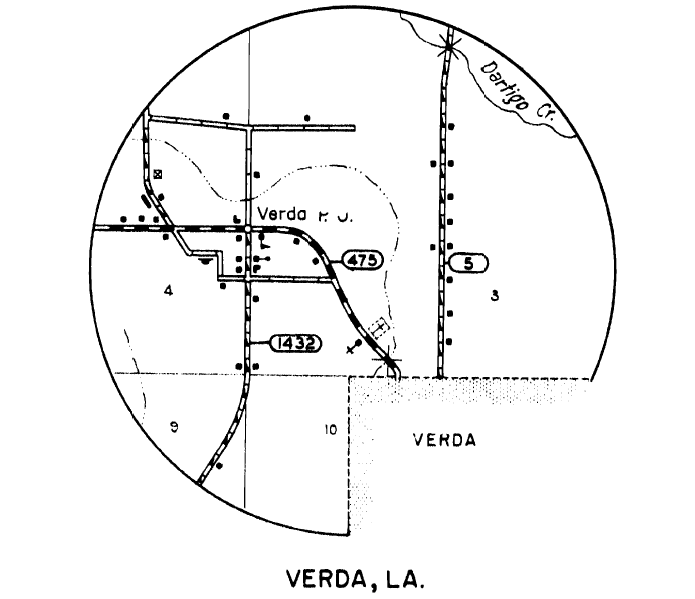 Inset on Louisiana Highway Map of Verda, Louisiana. This inset shows the old State Route 475, 1432, and 5 (current LA 122, 1240, and 471, respectively)